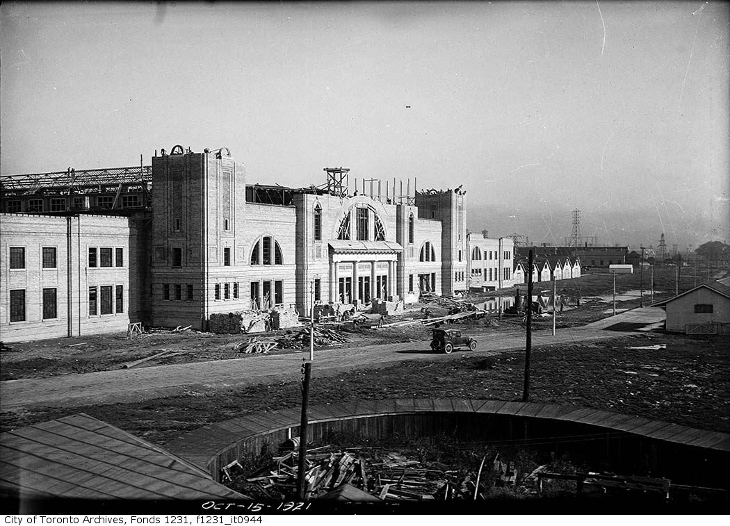 View of Coliseum complex under construction 1921